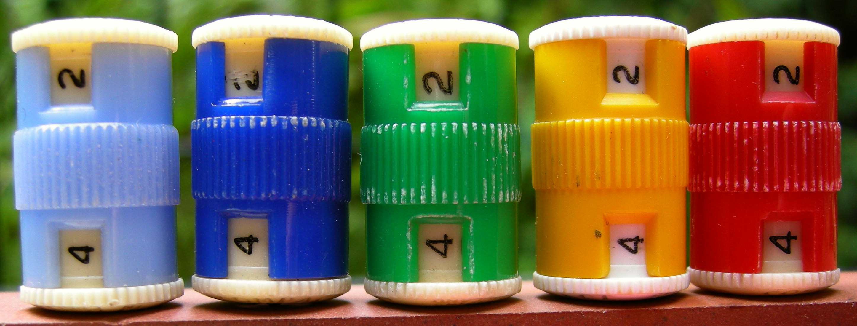 Compact knitting row counters manufactured 1960s